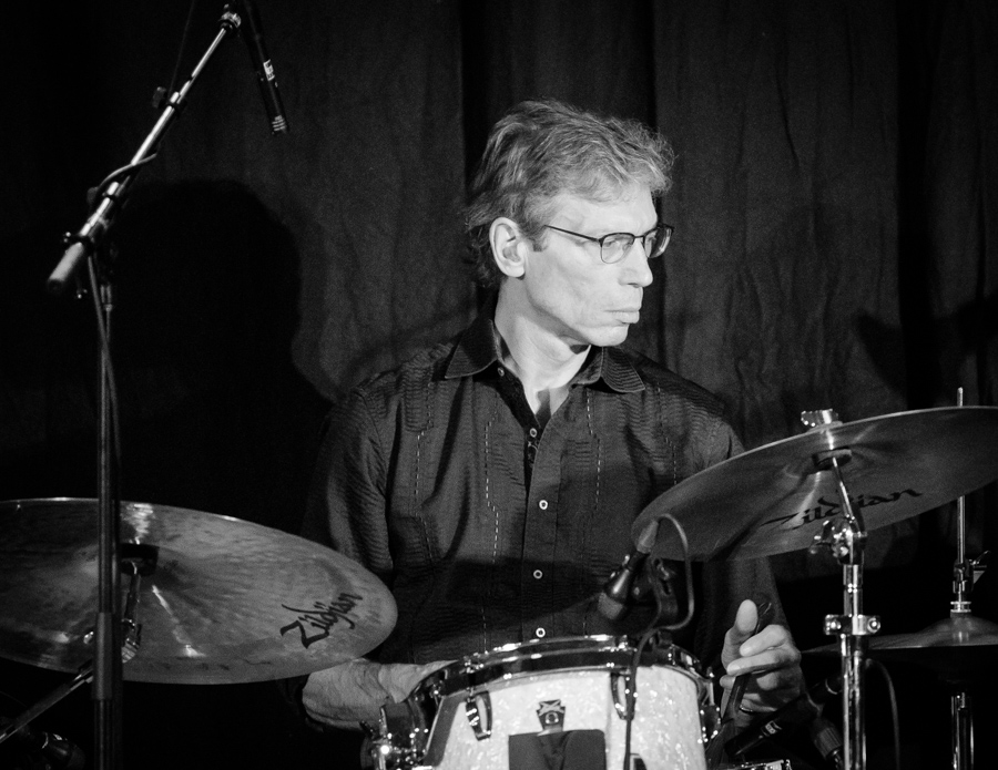 John Riley with Knut Kristiansen Tentett and John Riley at the stage at Thon Hotel Jølster. The concert was part of Jazz på Jølst and took place on 14. October 2017. Lineup: Knut Kristiansen (piano), Tor Yttredal (alto saxophone), Zoltan Vincze (tenor saxophone), Michael Barnes (baritone saxophone), Are Ovesen (trumpet), Sindre Dalhaug (trombone), Fred Johannessen (horn), Knut Riser (tuba), Knut Kristiansen (piano), Sigurd Ulveseth (bass guitar) og John Riley (drums).